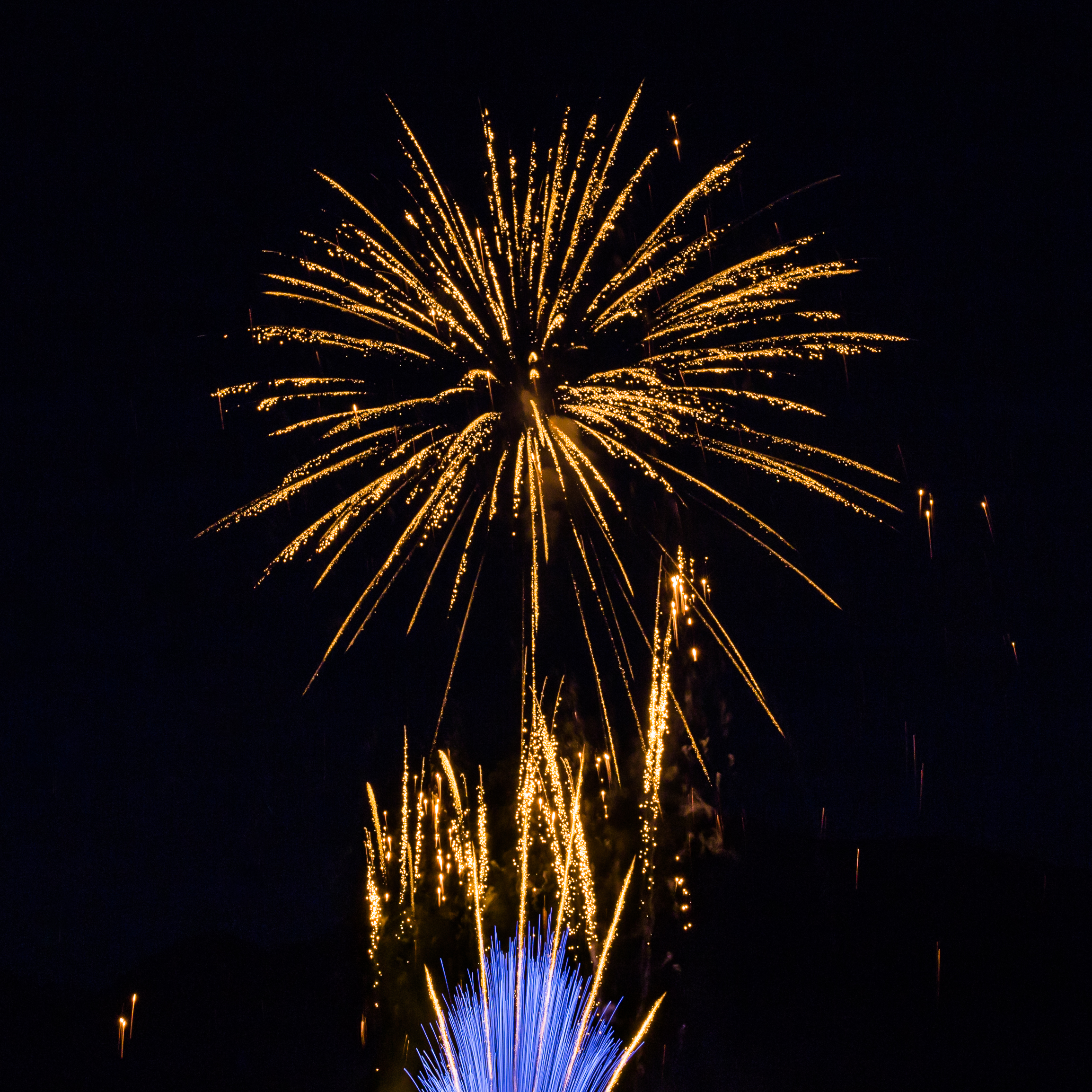 Fireworks in Annecy, France.